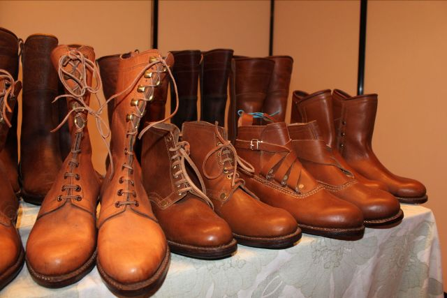 Handmade footwear from Almodôvar